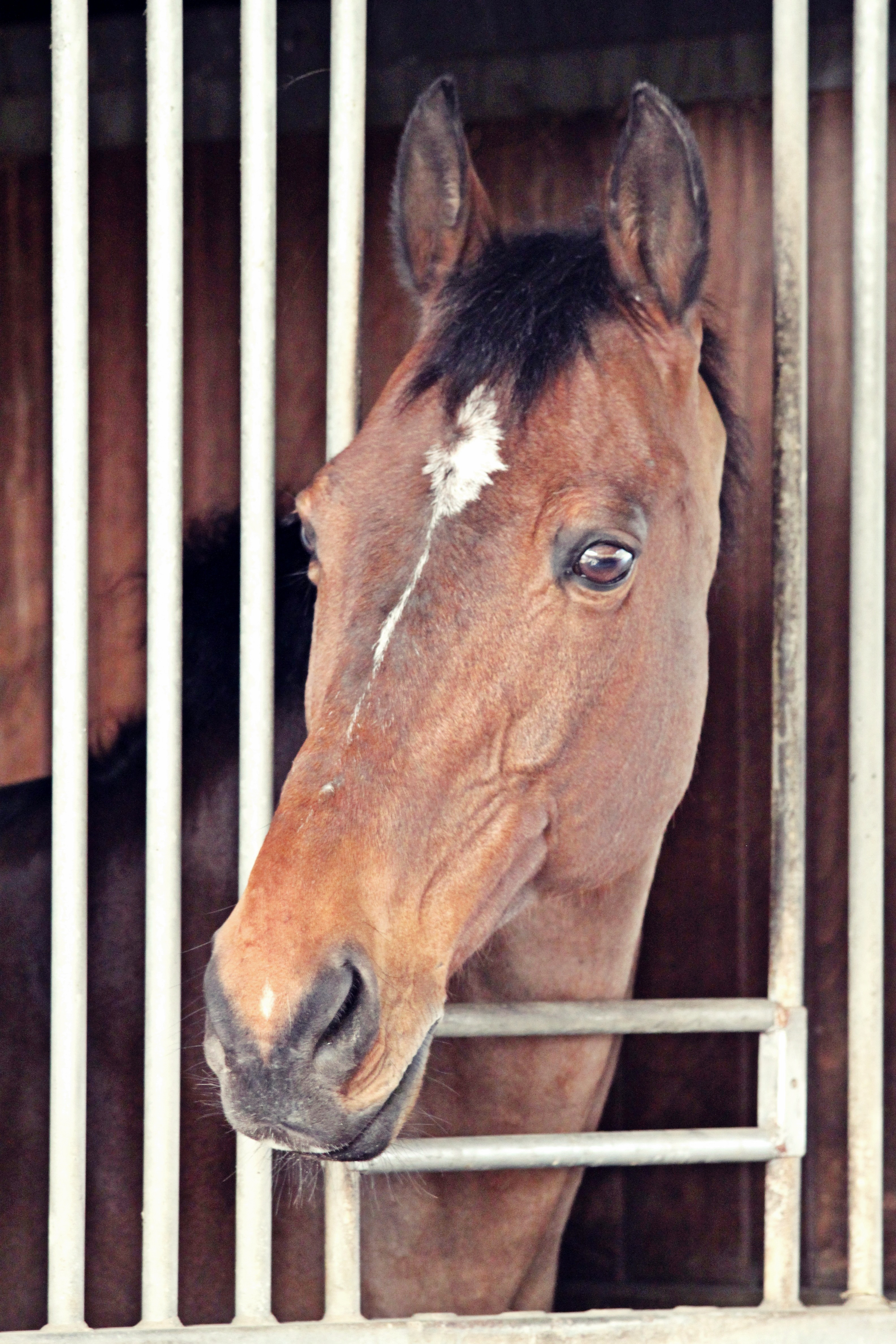 Selle français horse